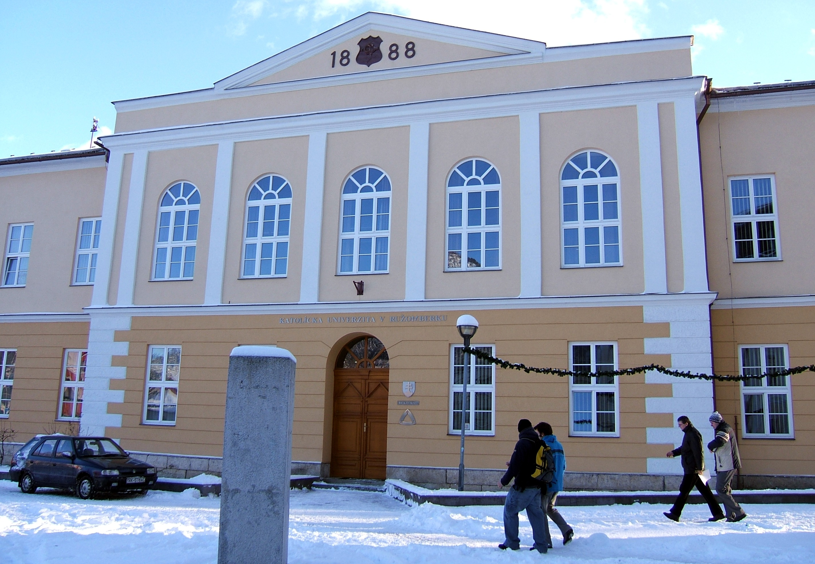 Catolic university of Ruzomberok (slovakia)